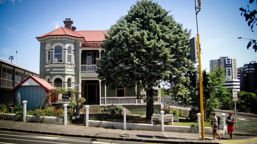 Social Enterprise Auckland